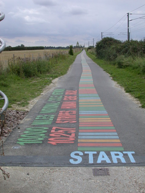 DNA cyclepath to Shelford To commemorate the National Cycle Network reaching 10,000 miles in September 2005, this mile of cyclepath was patterned with 10,257 stripes representing the human gene BRCA2, which codes for a DNA repair protein. Code: Adenine:Green, Cytosine:Blue, Guanine:Yellow, Thymine:Red. The path is part of Cycle Route 11 from London to Kings Lynn via Cambridge.